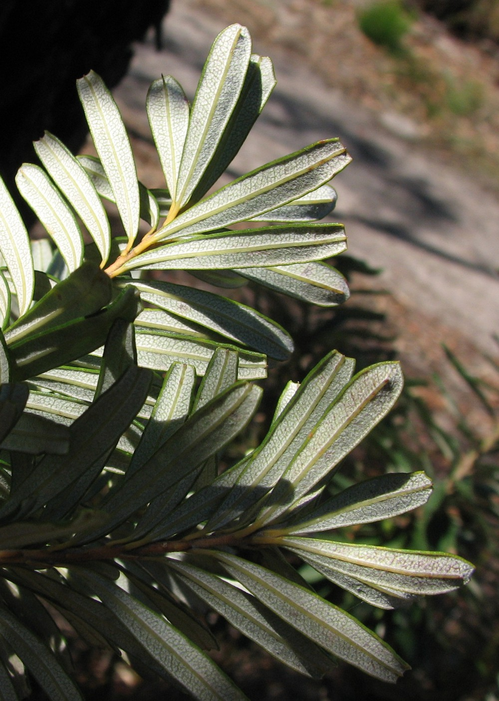 Banksia marginata leaf undersides, Blind Bight, Victoria, Australia